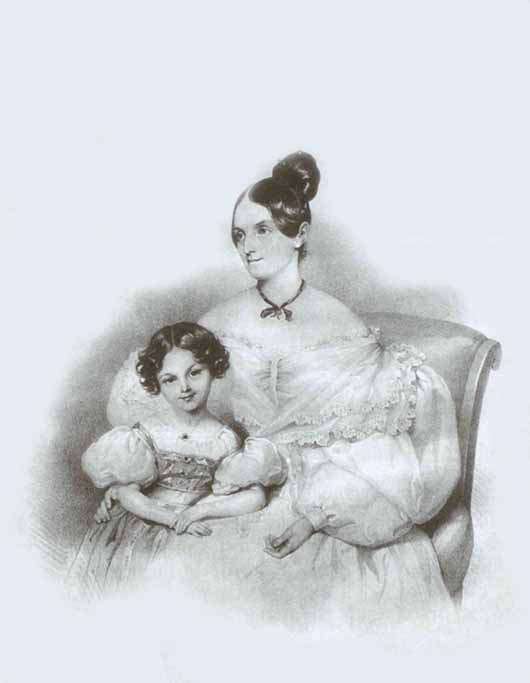 Olga Potockich Naryszkin